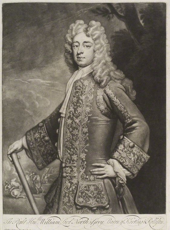 Mezzotint portrait of William North, 6th Baron North, 2nd Baron Grey (1678–1734)